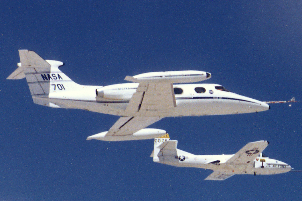 Two chase aircraft, a Learjet 23 (NASA 701) and a Cessna T-37 (NASA/USAF 00084), are shown in formation with a Boeing B-747 jetliner (NASA 905) in this 1974 NASA Flight Research Center (FRC) photograph. The two chase aircraft were used to probe the trailing wake vortices generated by the airflow around the wings of the B-747 aircraft. The vortex trails were made visible by smoke generators mounted under the wings of the B-747 aircraft.